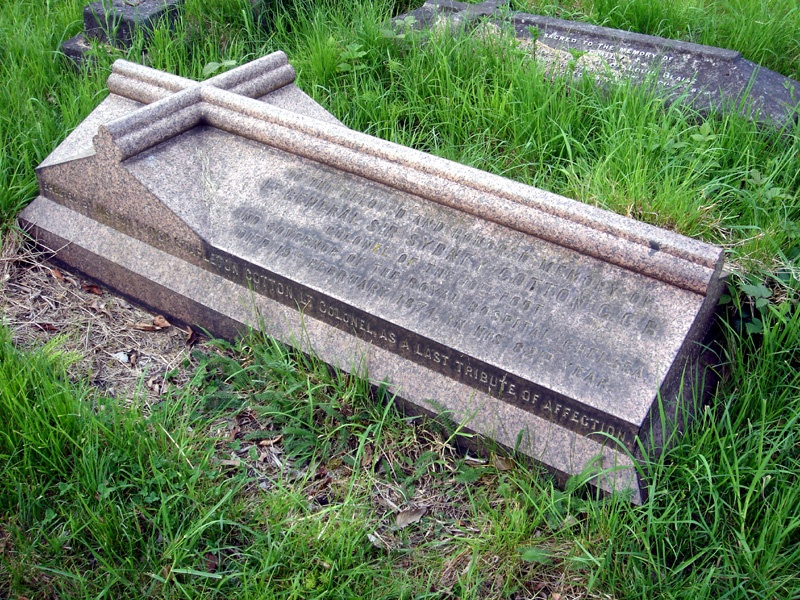 Sydney Cotton funerary monument, Brompton Cemetery, London